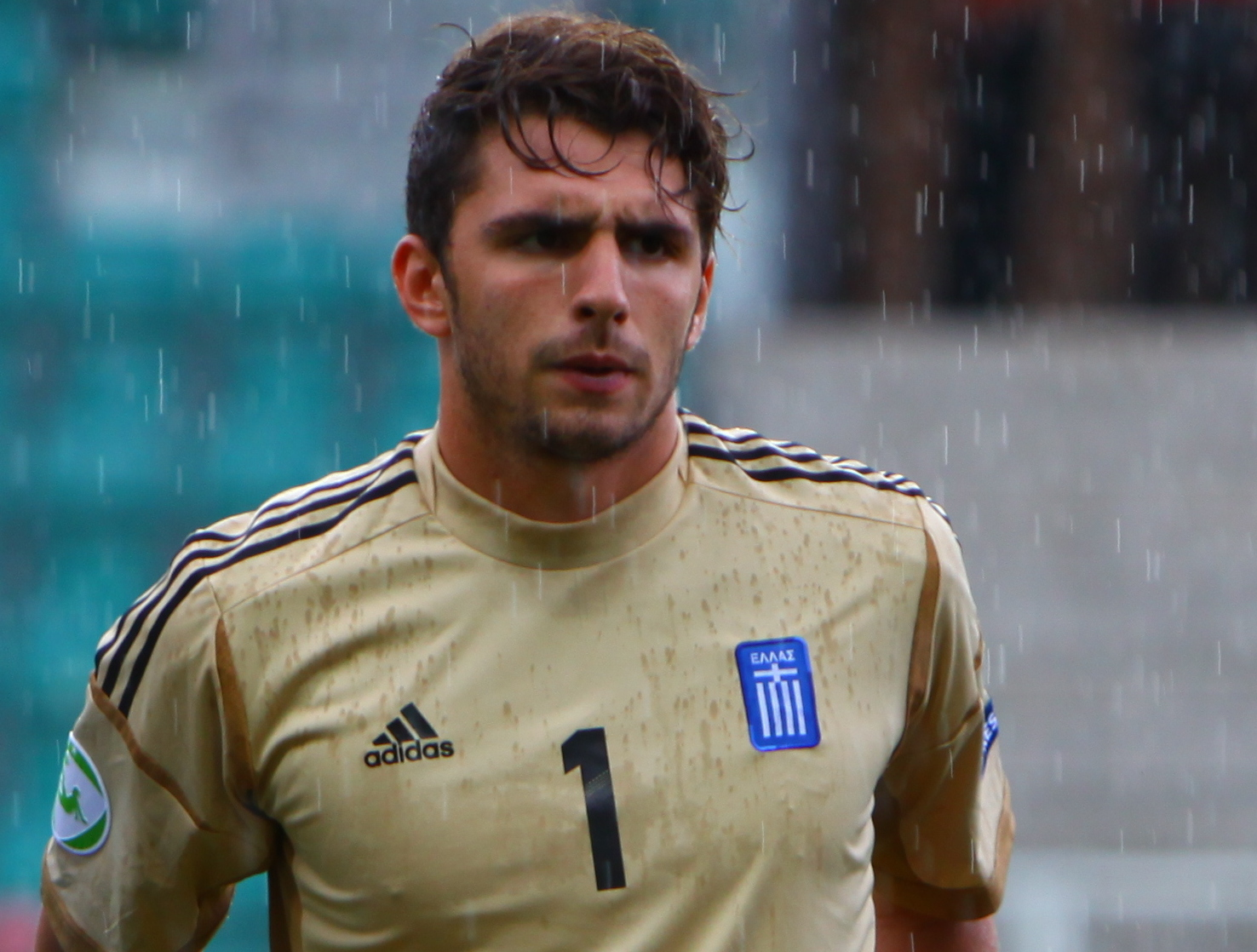 U-19 England vs Greece.